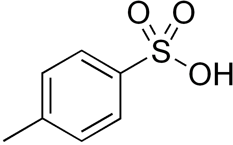 chemical structure of tosic acid (p-toluenesulfonic acid)